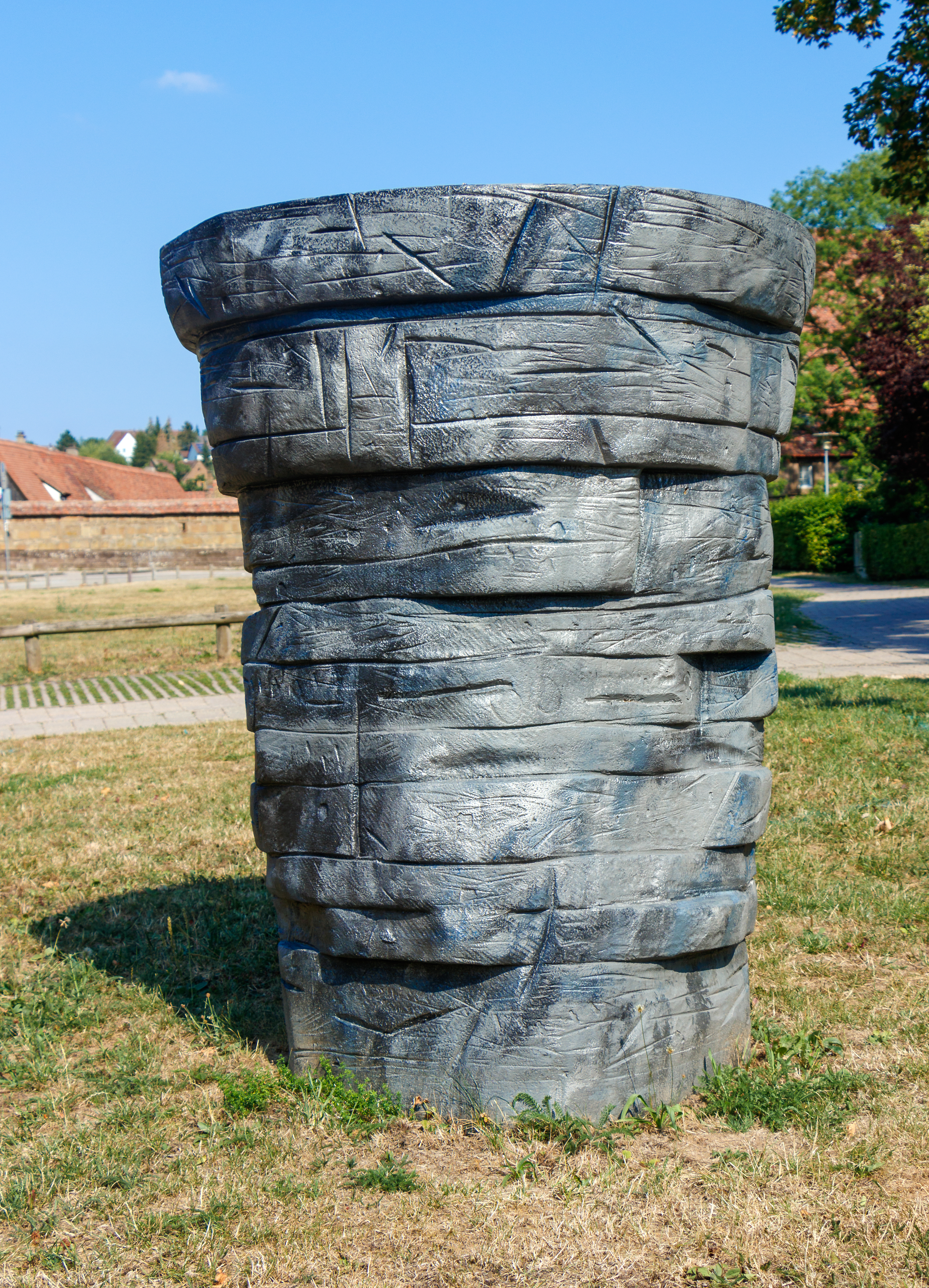 "Cast-iron eyecatcher" by Ingrid Hartlieb, cast iron, 2015, Skulpturenweg Maulbronn, Maulbronn, Germany